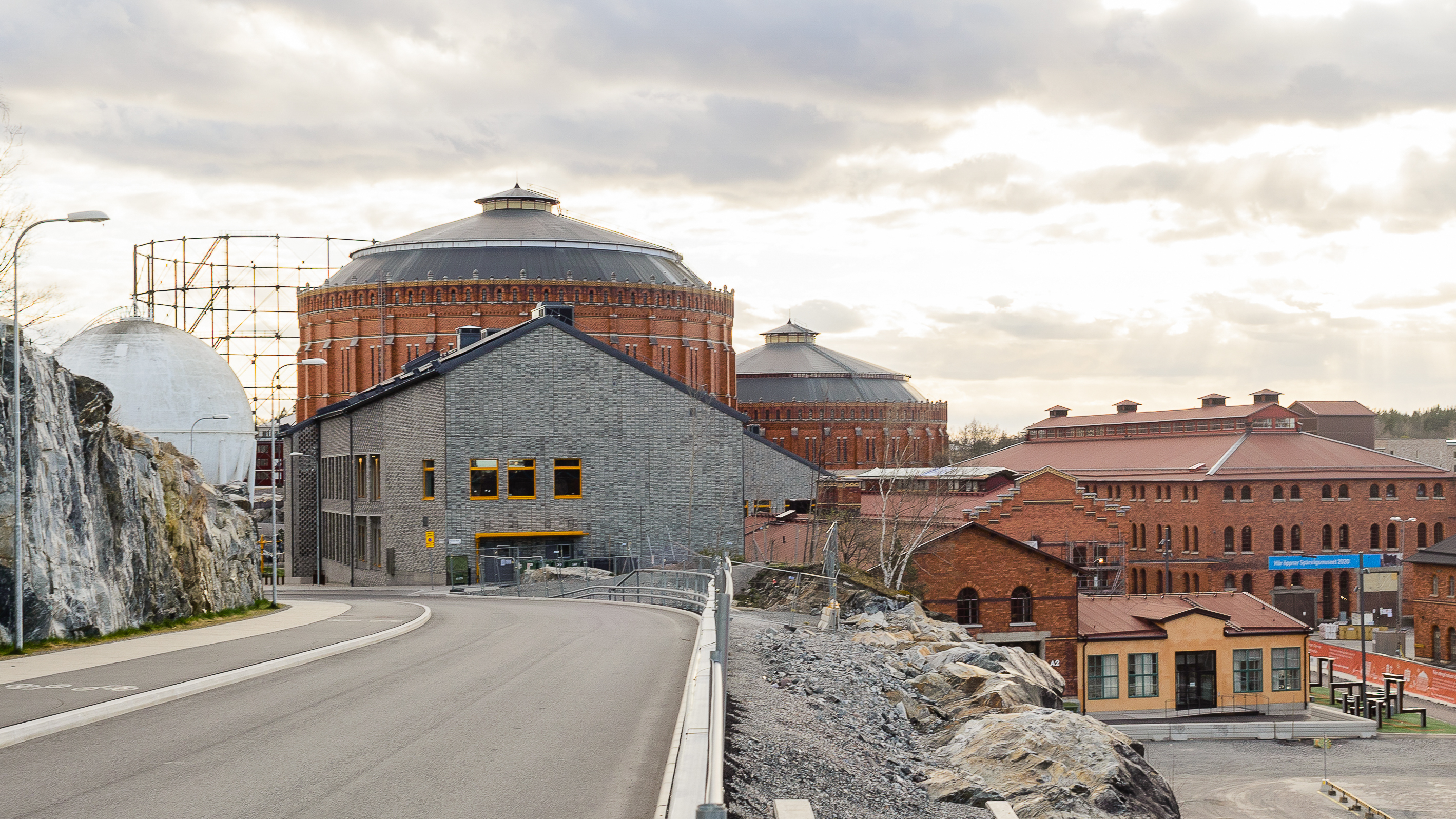 Bobergsskolan is a school in Norra Djurgårdstaden. Built 2019. Architect: Max Arkitekter.